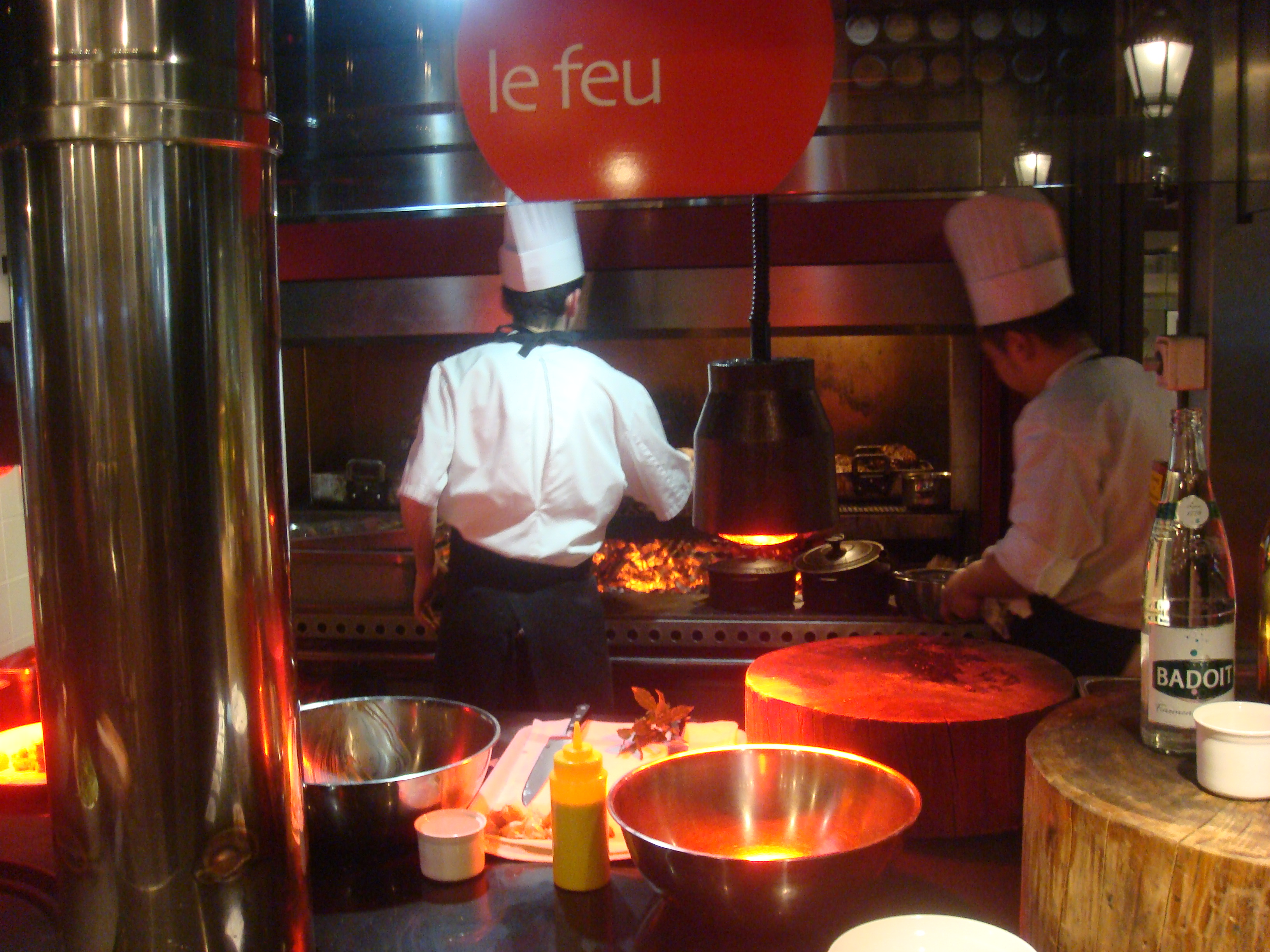 Fireplace in Paul Bocuse restaurant Kitchen, Lyon, France